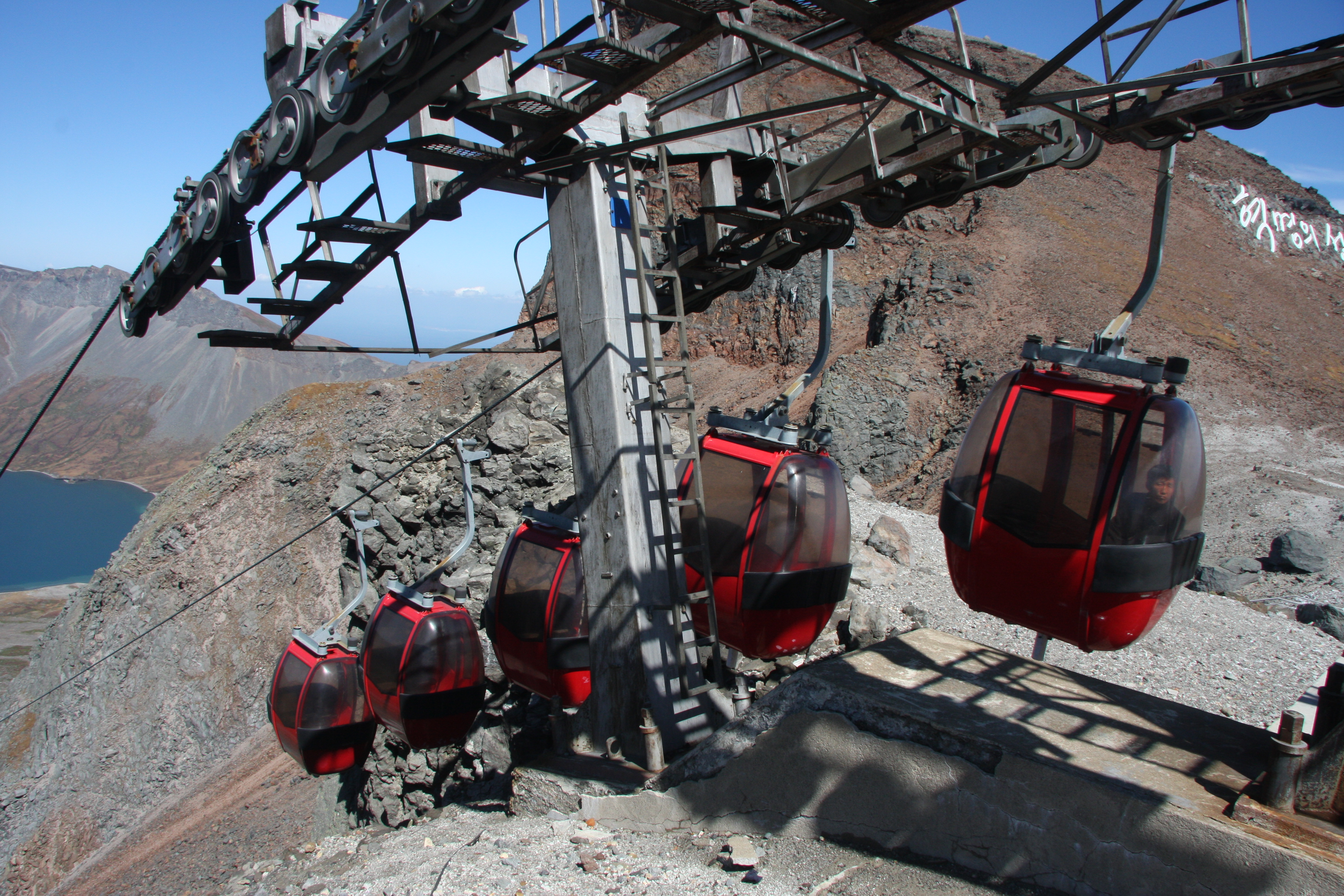 The cable car leading to the Heaven Lake in front of Hyangdo Peak.